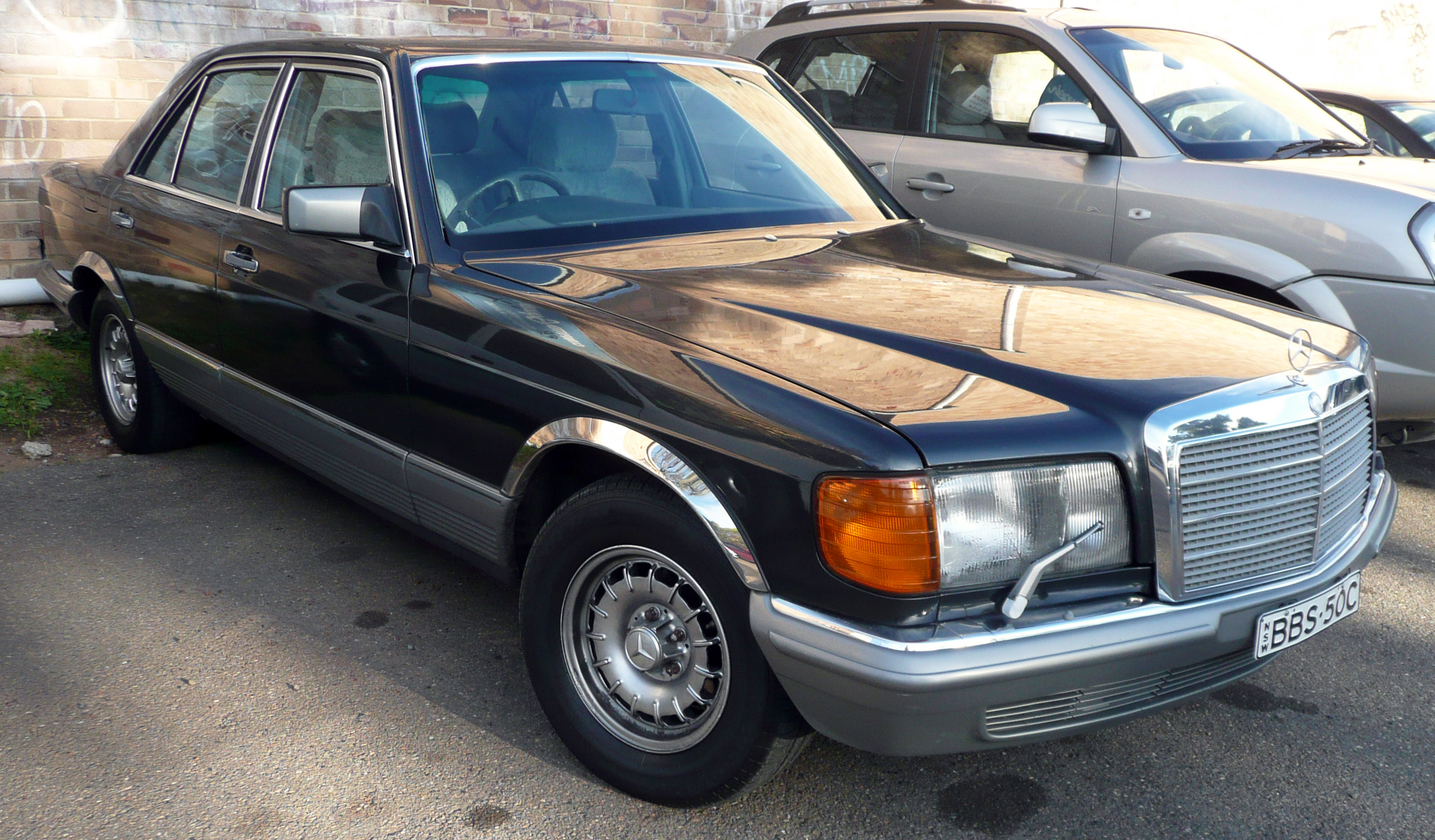 1983–1985 Mercedes-Benz 380 SE (W 126) sedan. Photographed in Sutherland, New South Wales, Australia.